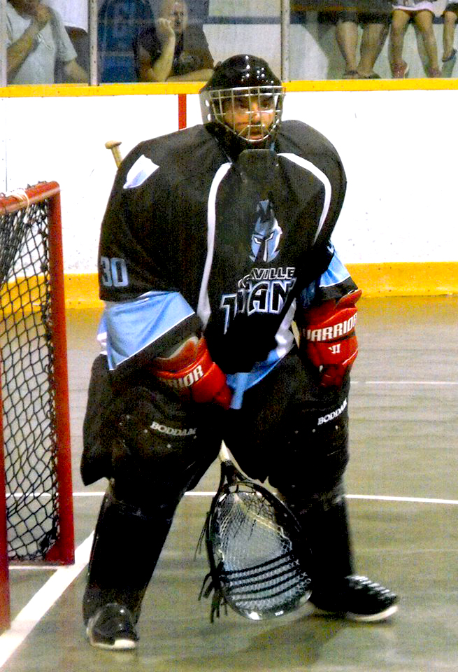 These images of Ontario Senior B Lacrosse Action action during the 2014 season are taken by Devan Mighton.